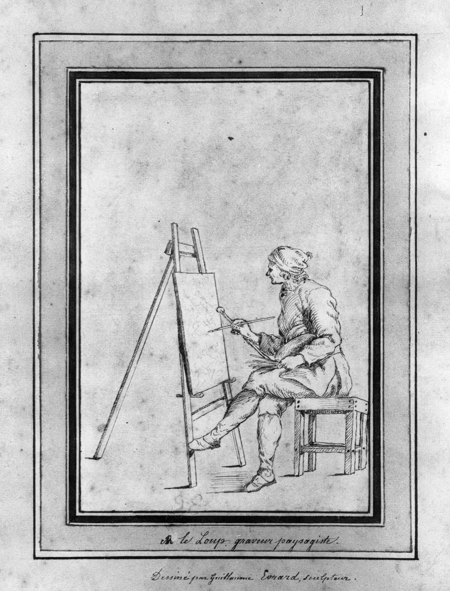 Portrait of Remacle Le Loup by the Liège sculpture Guillaume Évrard. Collection of the Cabinet des estampes et des dessins de la Ville de Liège, now part of the Museum of Fine Arts in Liège, Belgium.